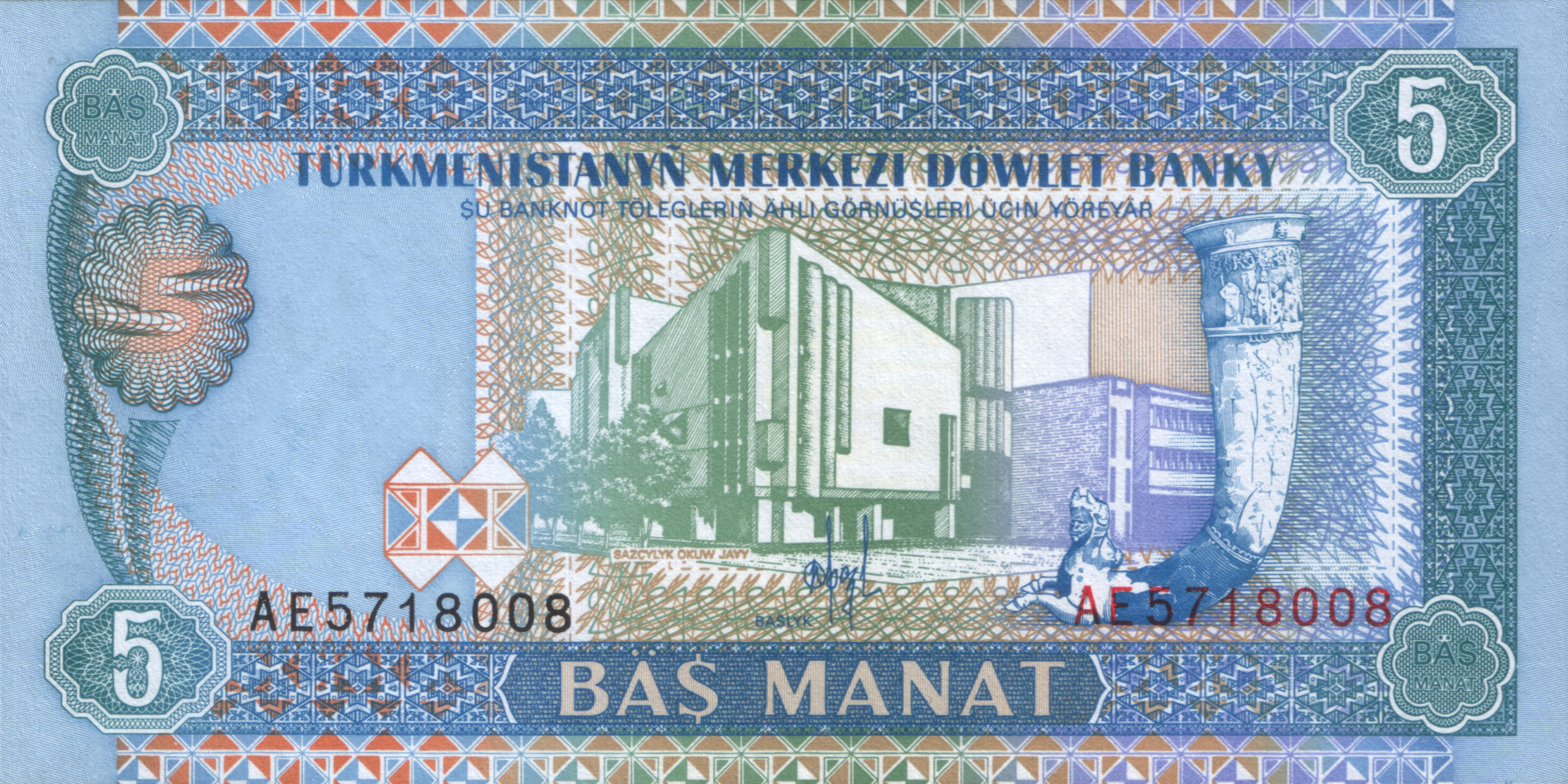 5 manats of Turkmenistan (1993)